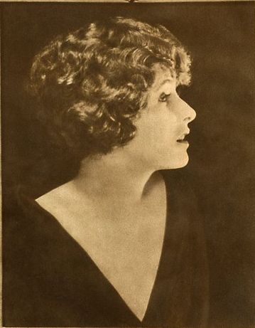 Claire Windsor